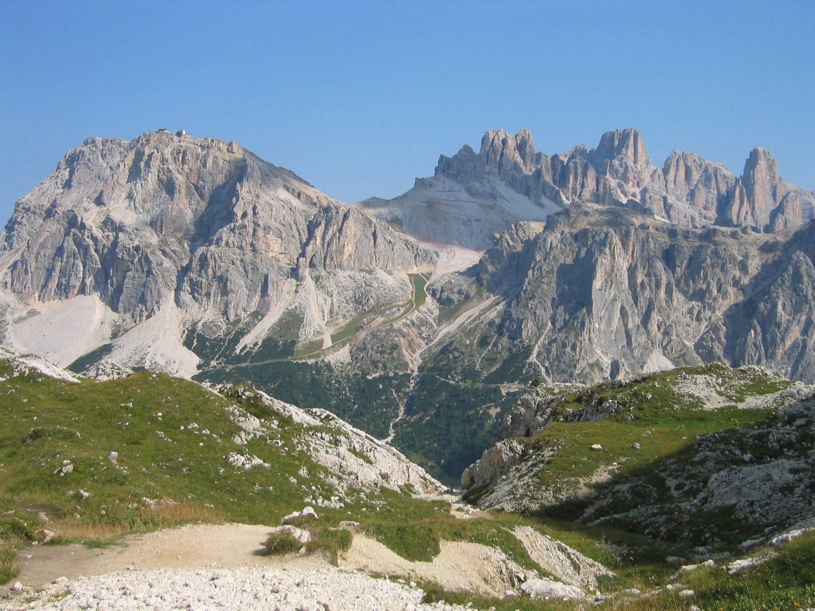 Lagazuoi (links) mit Fanisspitzen